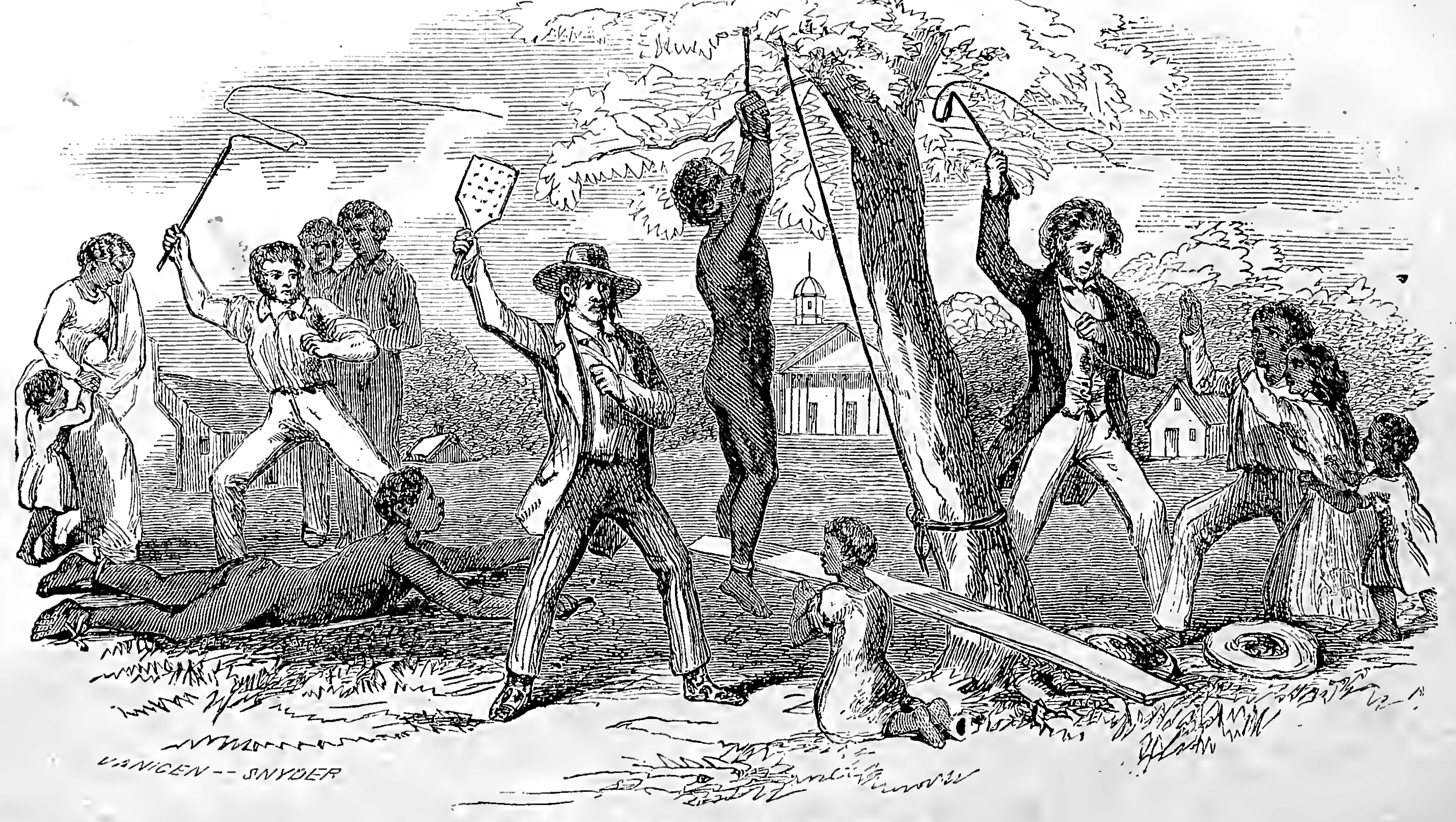 A white man is hitting a black slave with a paddle. The slave is tied by his wrists to the branch of a tree. Two other white men are attacking black people with whips.